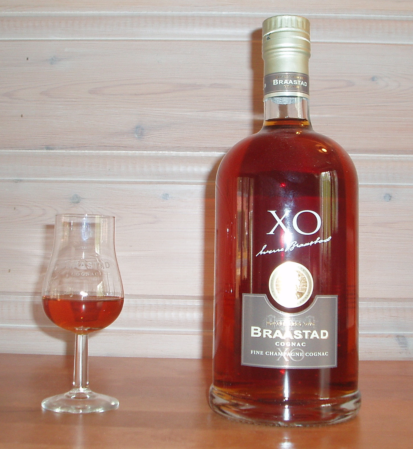 1 litre bottle of Braastad XO cognac and a tulip shaped cognac glass